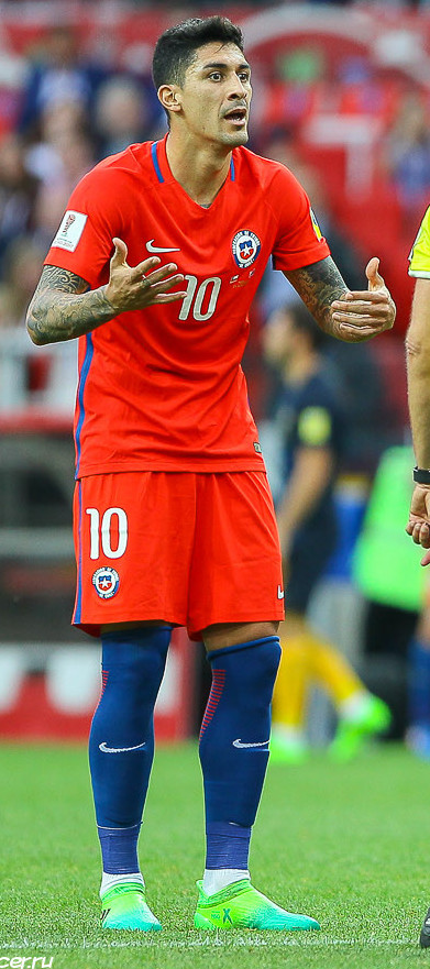 Chile VS. Australia 1 - 1, 25 June 2017